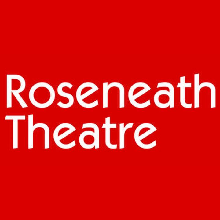 Logo of the Roseneath Theatre company of Toronto, ON